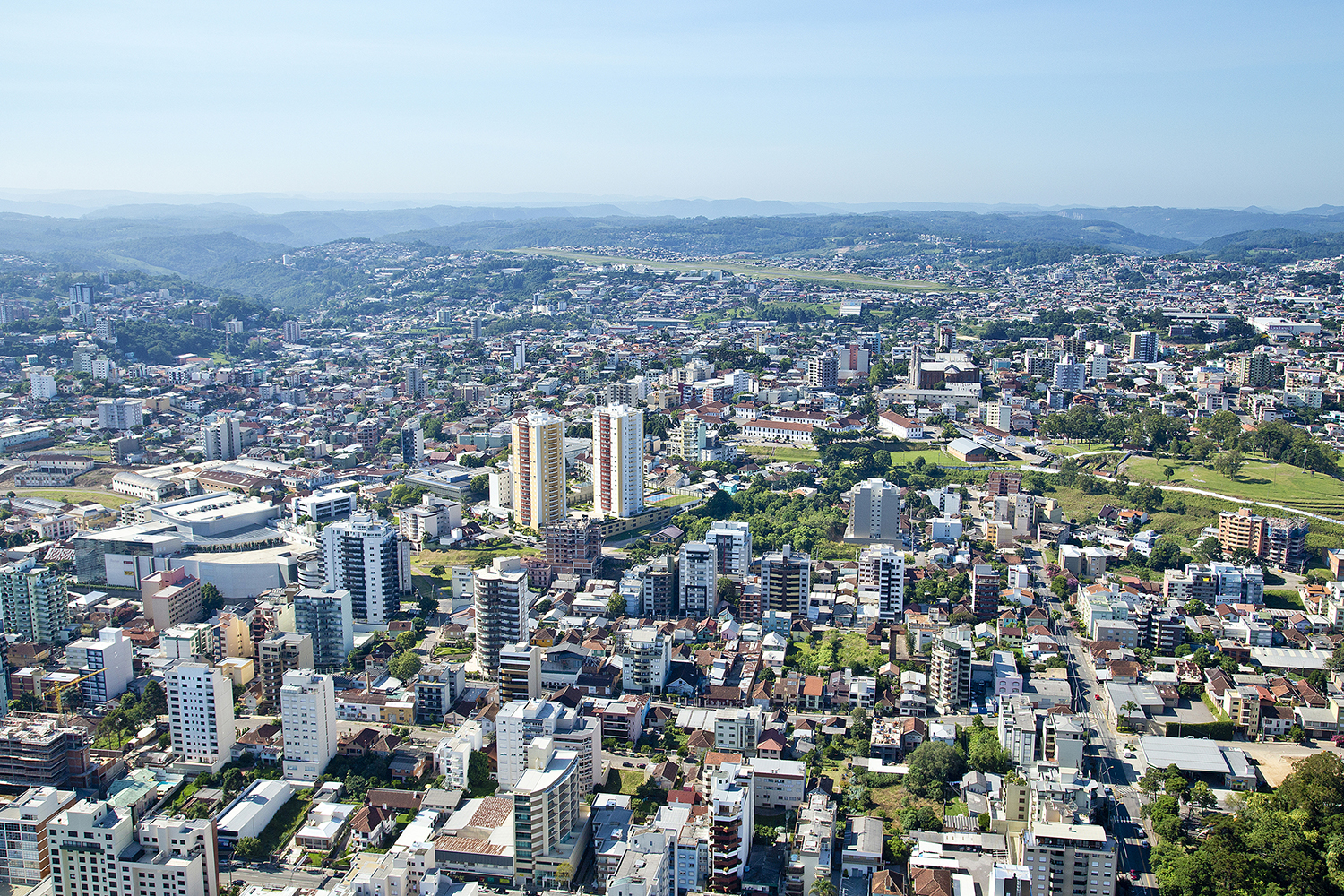 Cidade de Caxias do Sul vista de cima.